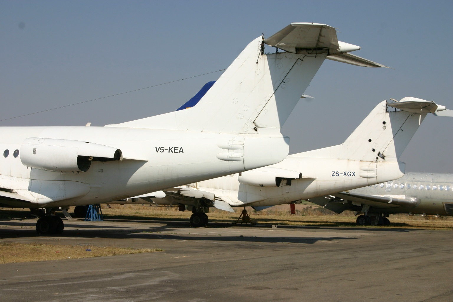 At Lanseria International Airport